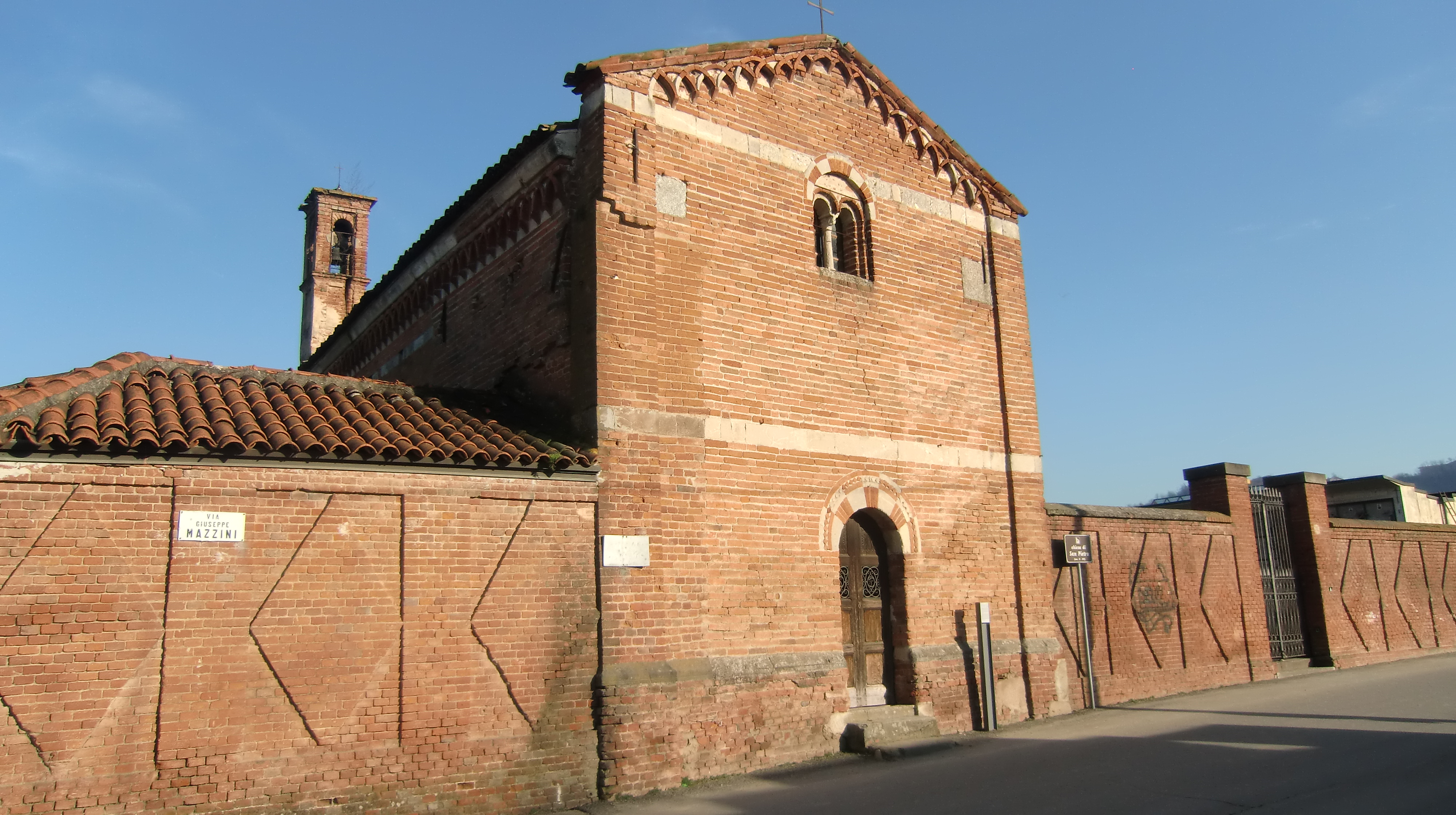 Brusasco (To), Chiesa di San Pietro Vecchio (cemeterial church), facade, XI century, romanesque architecture